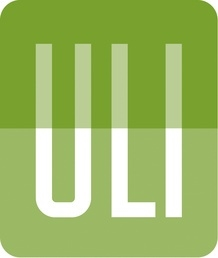 The official logo image of ULI.